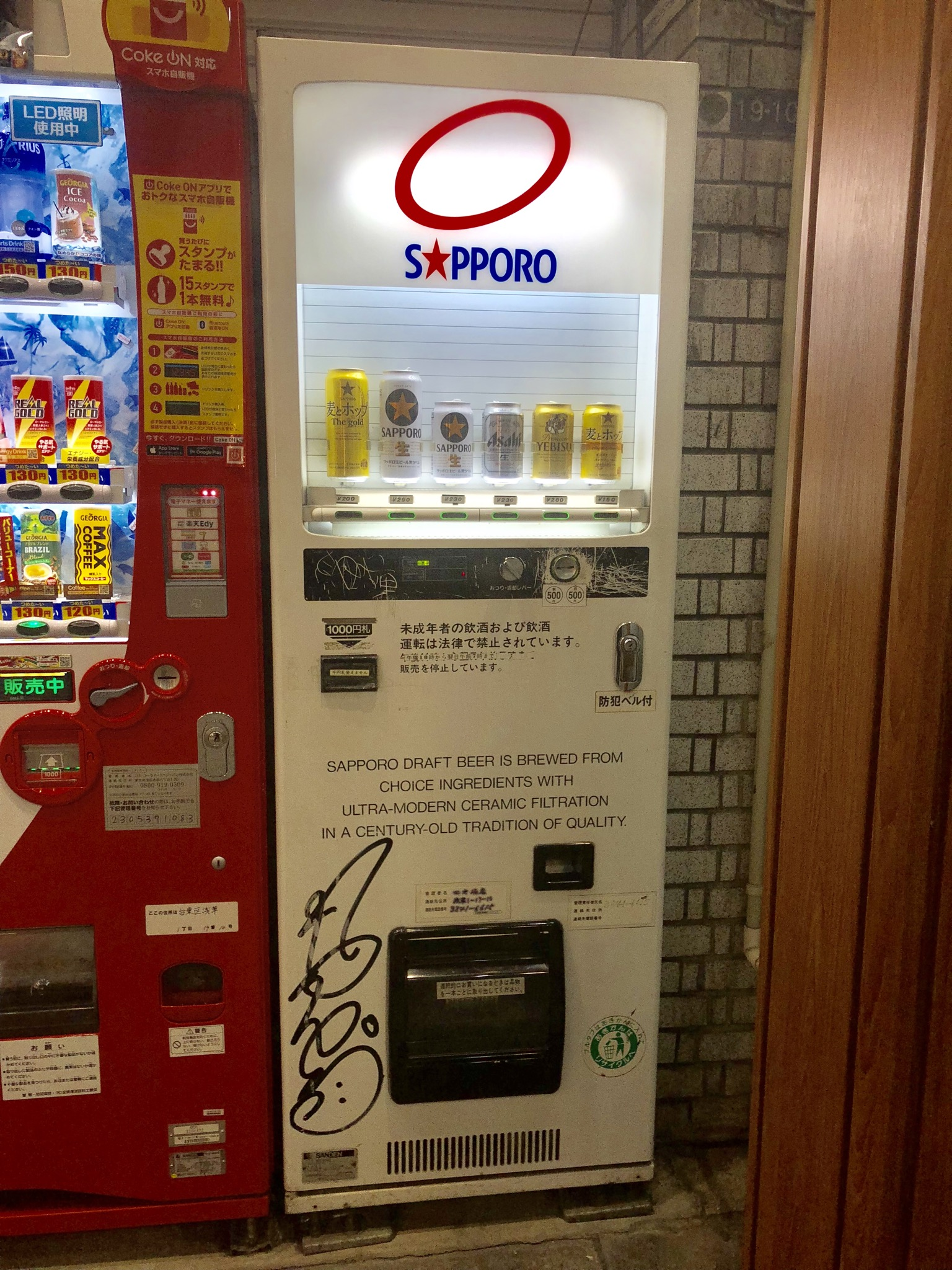 Vending machines around the 1990s that sells alcohol(This machine does not support adult certification)